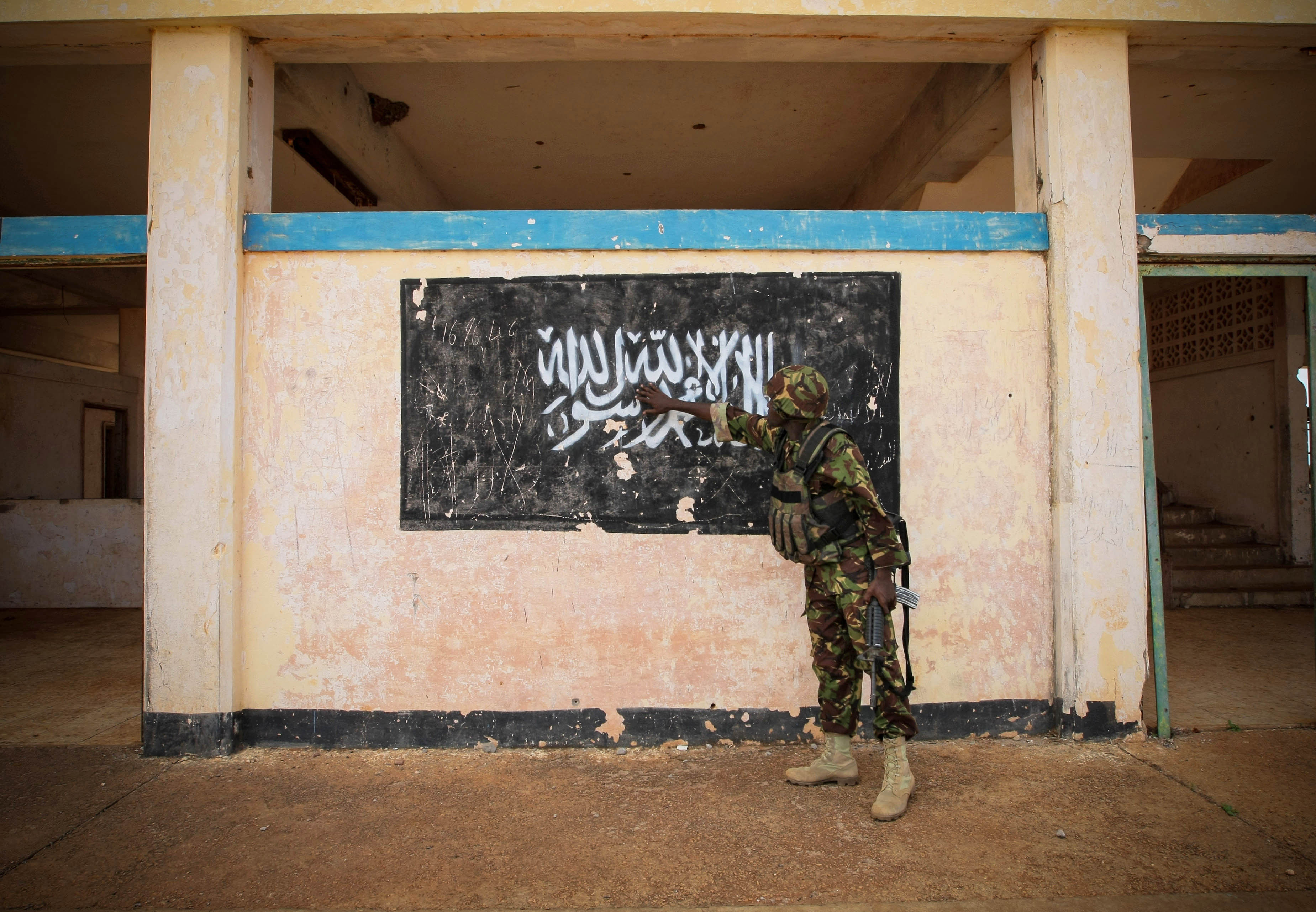 A soldier of the Kenyan Contingent serving with the African Union Mission in Somalia (AMISOM) gestures towards the black flag of the Al Qaeda-affiliated extremist group Al Shabaab painted on the wall of Kismayo Airport. On 02 October 2012, Kenyan AMISOM troops supporting forces of the Somali National Army and the pro-government Ras Kimboni Brigade moved into and through Kismayo, the hitherto last major urban stronghold of the Al-Qaeda-affiliated extremist group Al Shabaab, on their way to the city's airport without a shot being fired following a month long operation to liberate towns and villages across southern Somalia from Afmadow and Kismayo itself. AU-UN IST PHOTO / STUART PRICE.